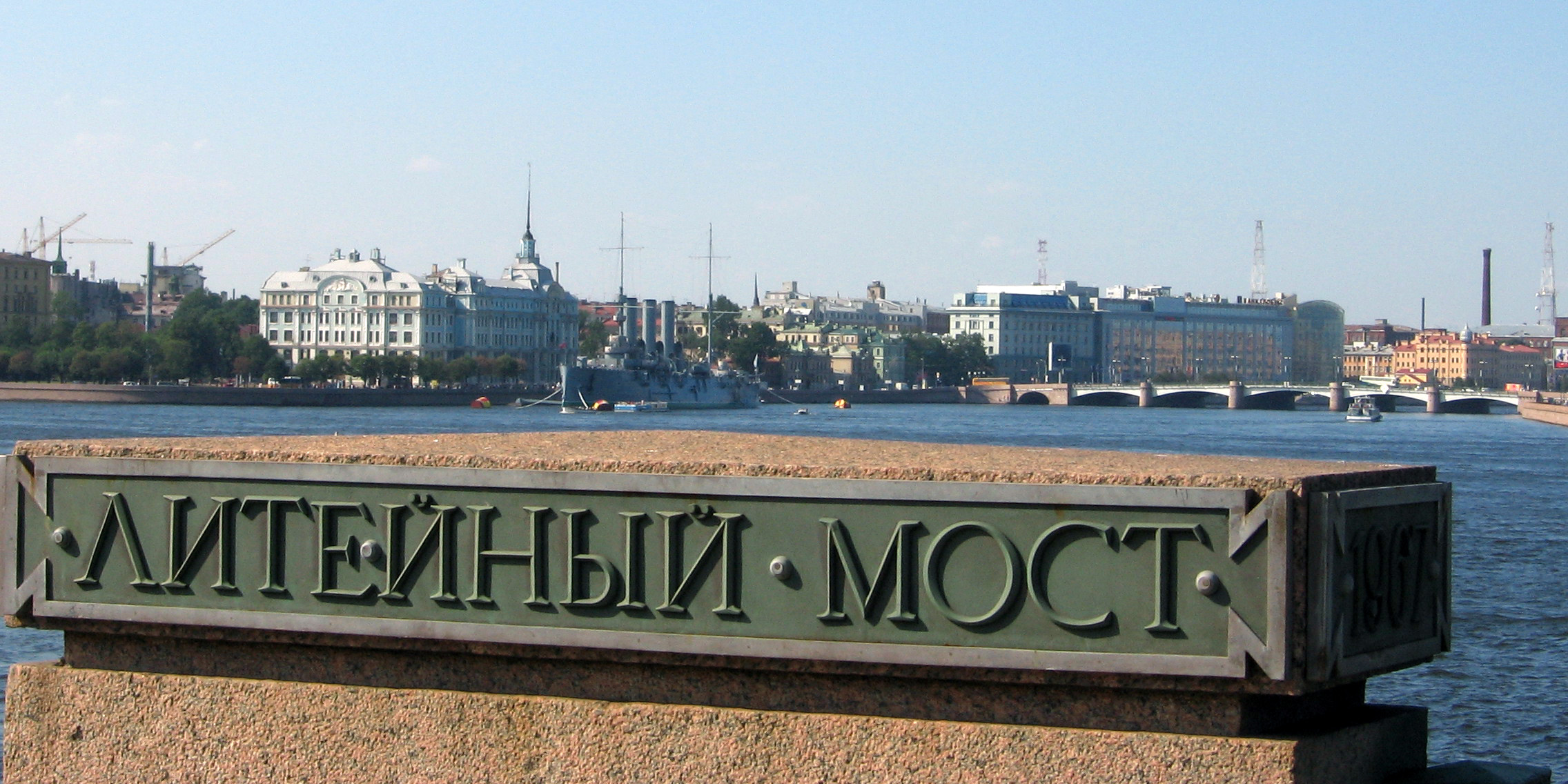 Memorial plate near Liteyny Bridge in front, Cruiser Aurora and Nakhimov Naval college on the background